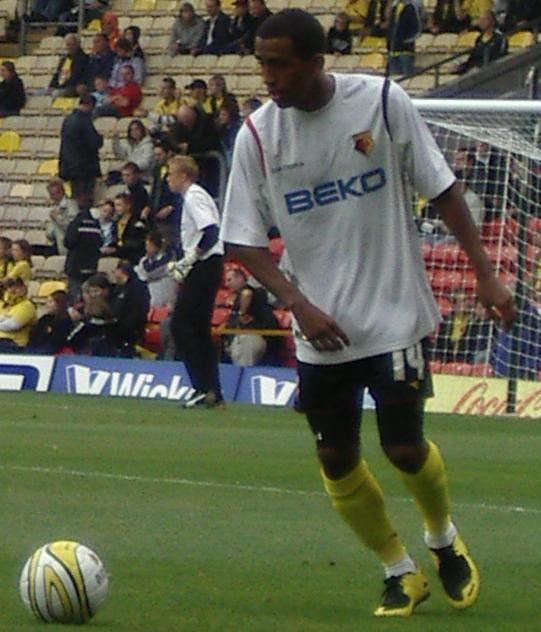 A photo of Lee Williamson taken at Watford vs Sheff Utd on 18th August 2007